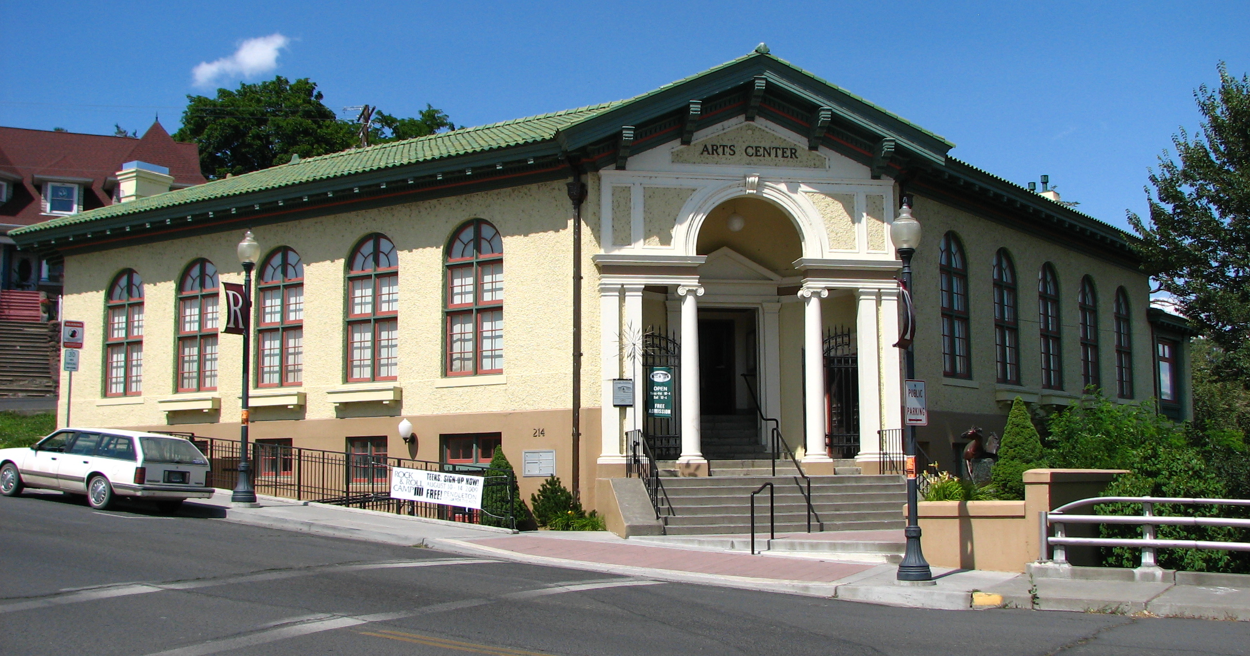 The historic Pendleton Center for the Arts, located at 214 North Main Street in Pendleton, Oregon, United States, is listed on the US National Register of Historic Places under its historic name of "Umatilla County Library".